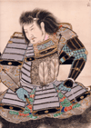 Kikuchi Takemasa